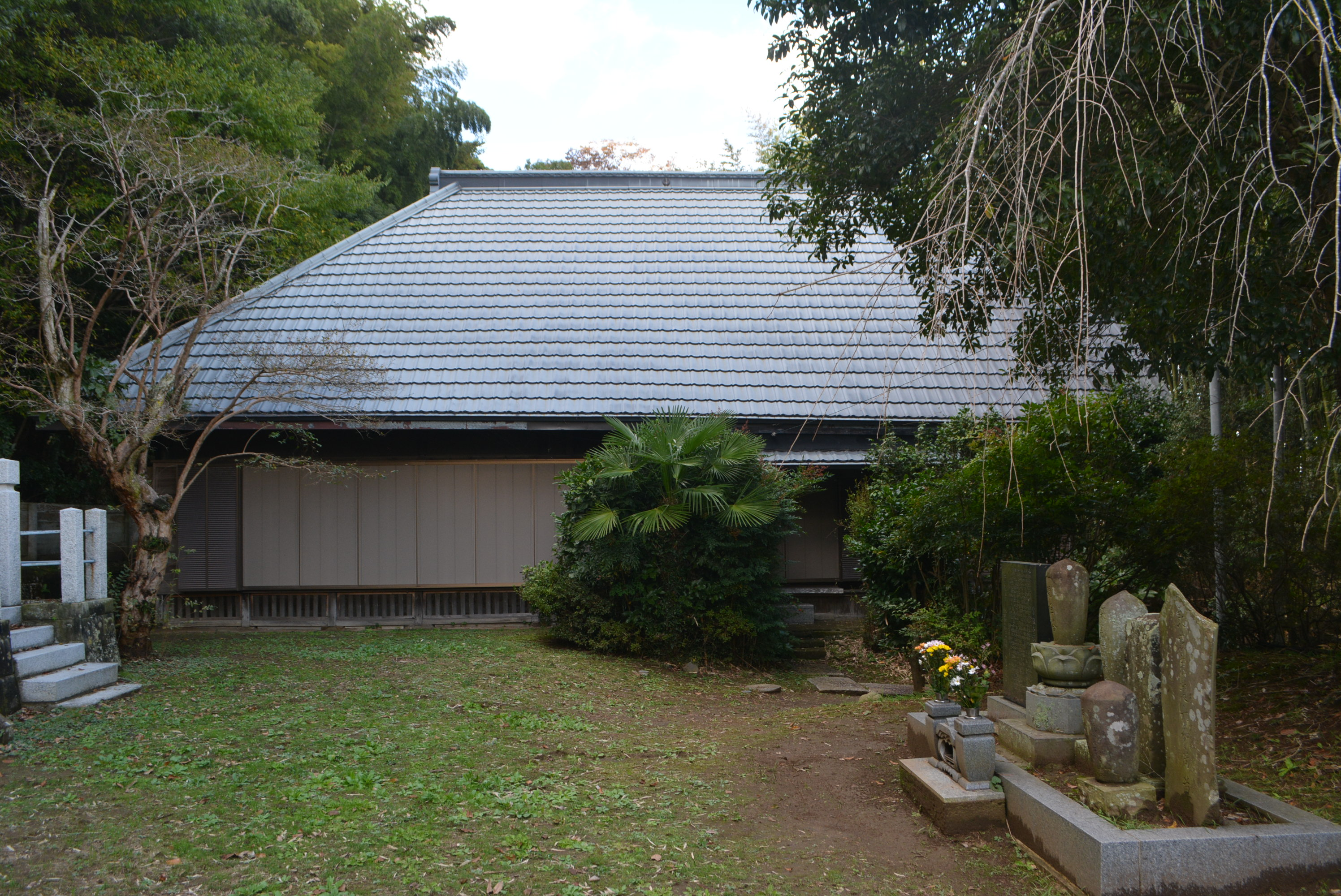 Josyo-ji temple main hall,Sawara,Katori city,Japan